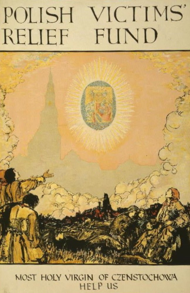 Polish Victims Relief Fund poster Czestochowa